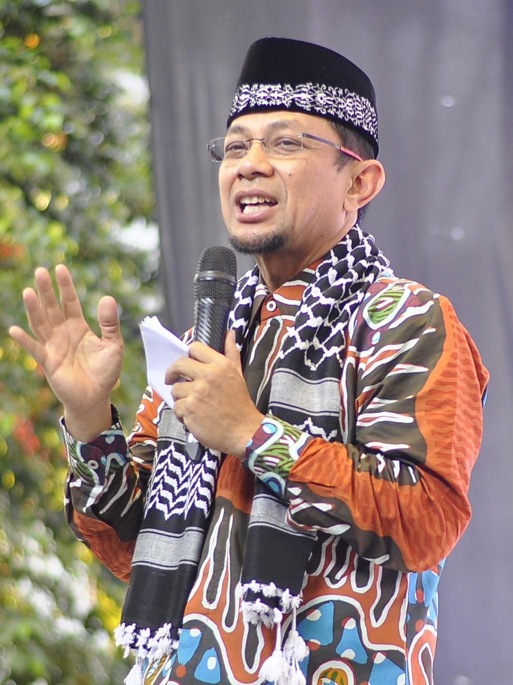 The highlight of the 47th Anniversary, held on May 22, 2018, was lively. Located at the Barata Indonesia Headquarters, Gresik, the anniversary event of the birth of Barata Indonesia was also enlivened by the famous cleric Ustadz Wijayanto who filled Tausyiah for one hour until before the coming of breaking the fast.